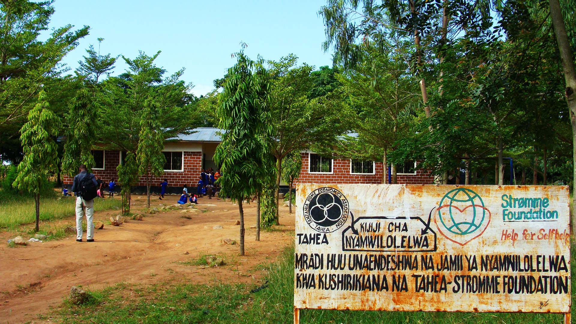 TAHEA Pre-School and Schooling Center